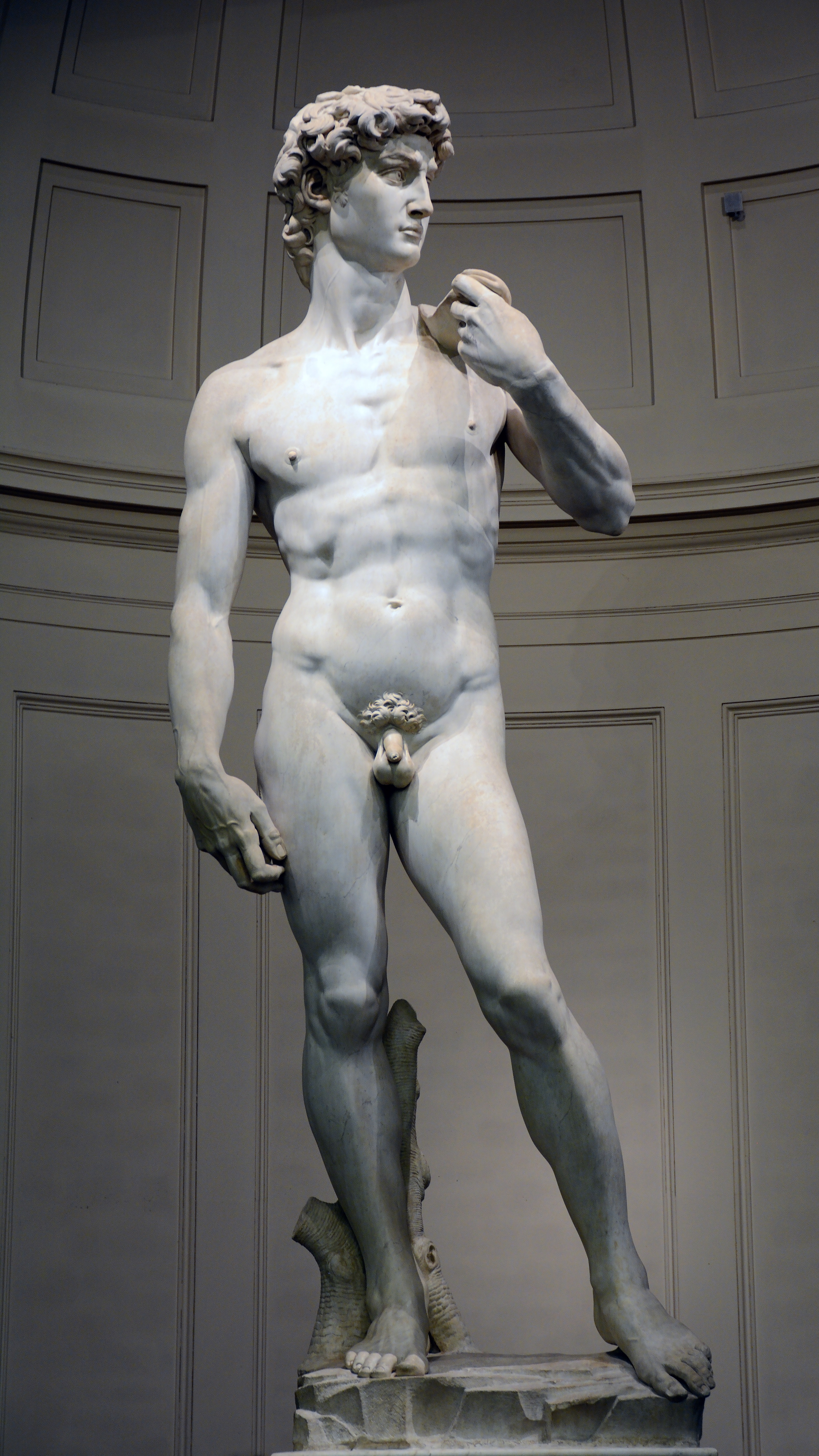 David (Michelangelo)